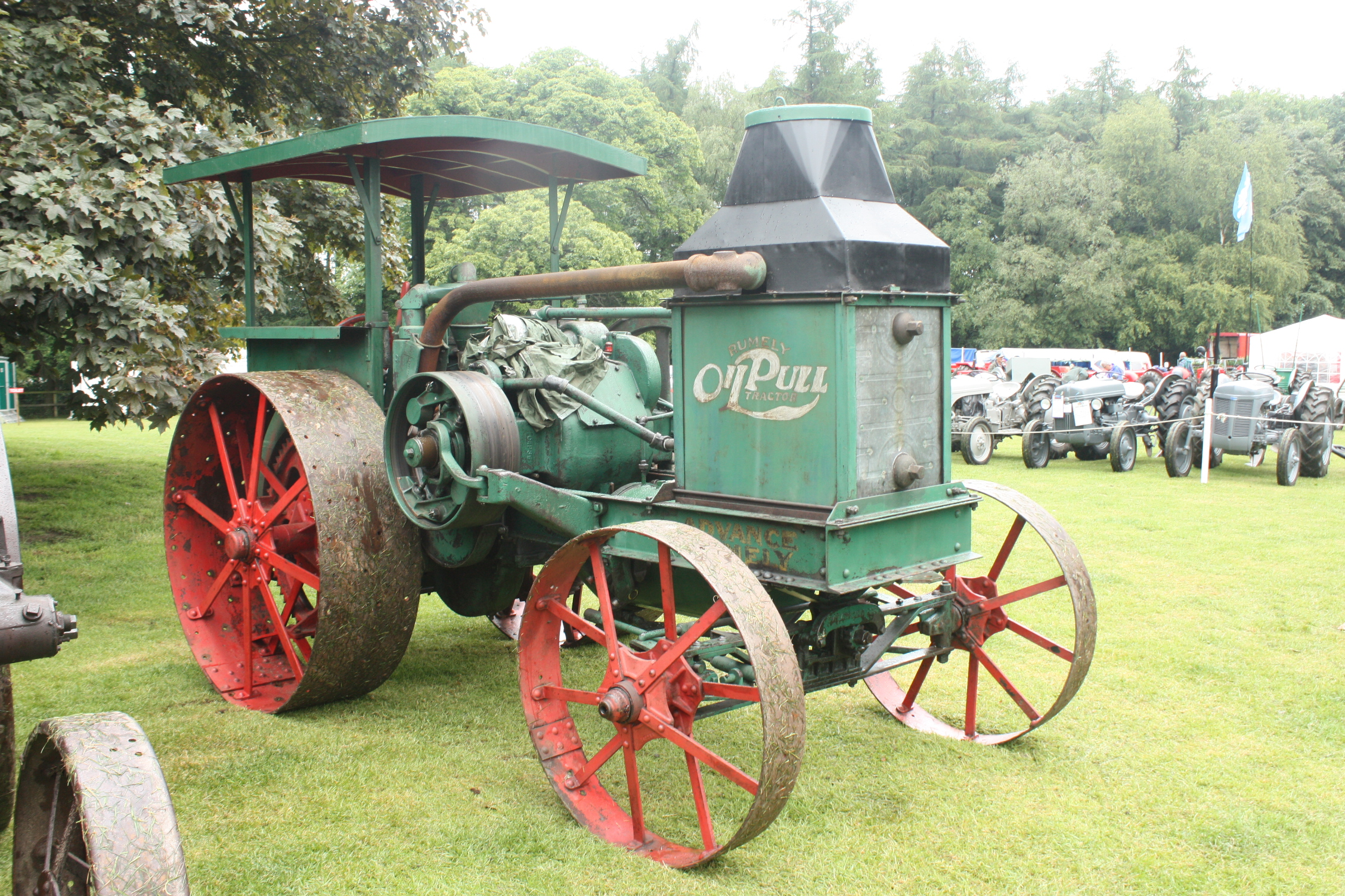 A Advance-Rumley OilPull type H tractor